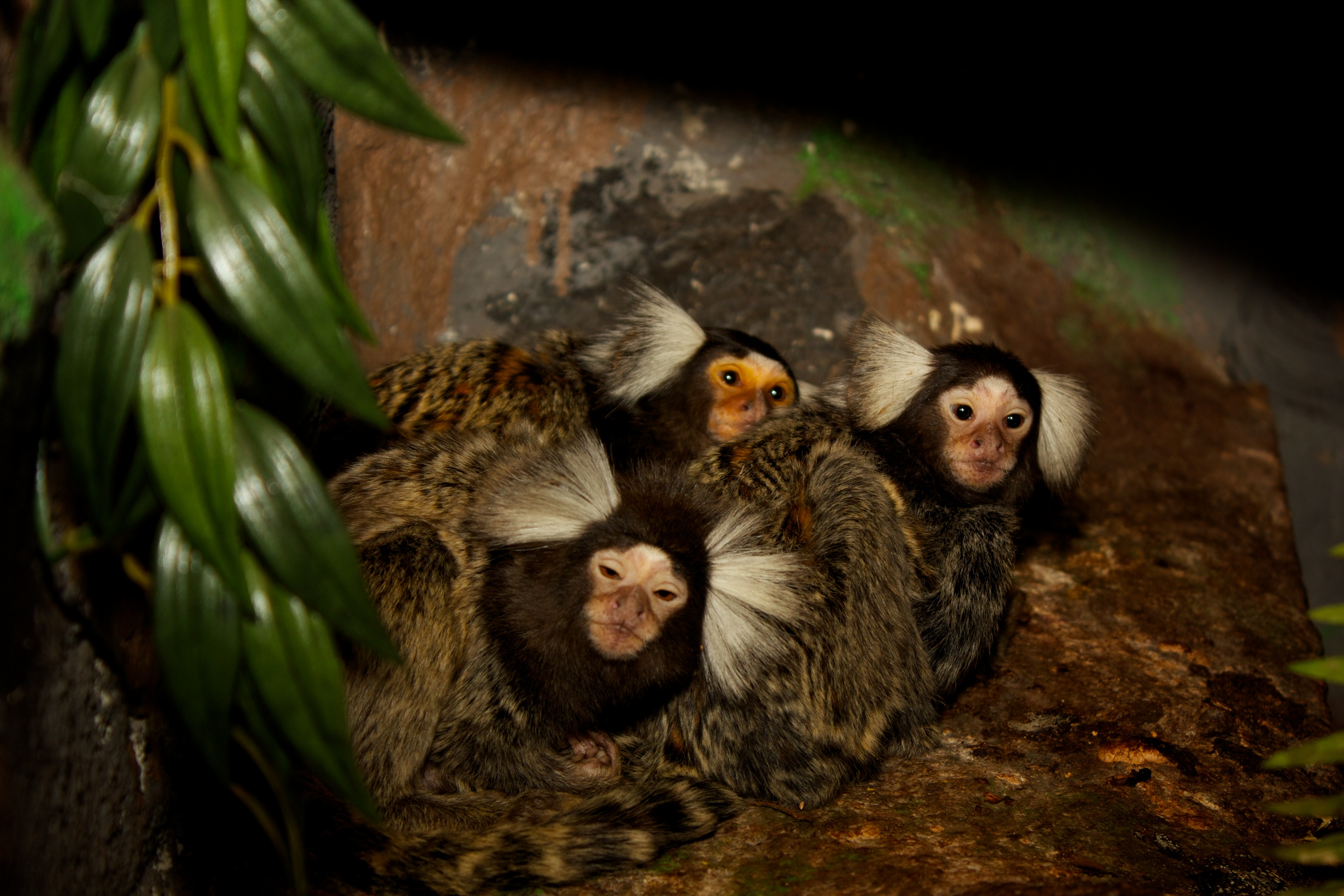 Silkeapekattene Milly, Molly og Mandy